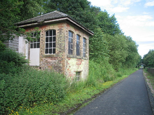 Disused signal box at the site of Bogside Station. An interesting surviving relic from the railway along the West Fife Cycleway.